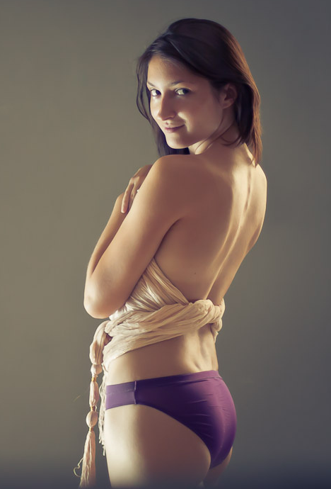 The photograper